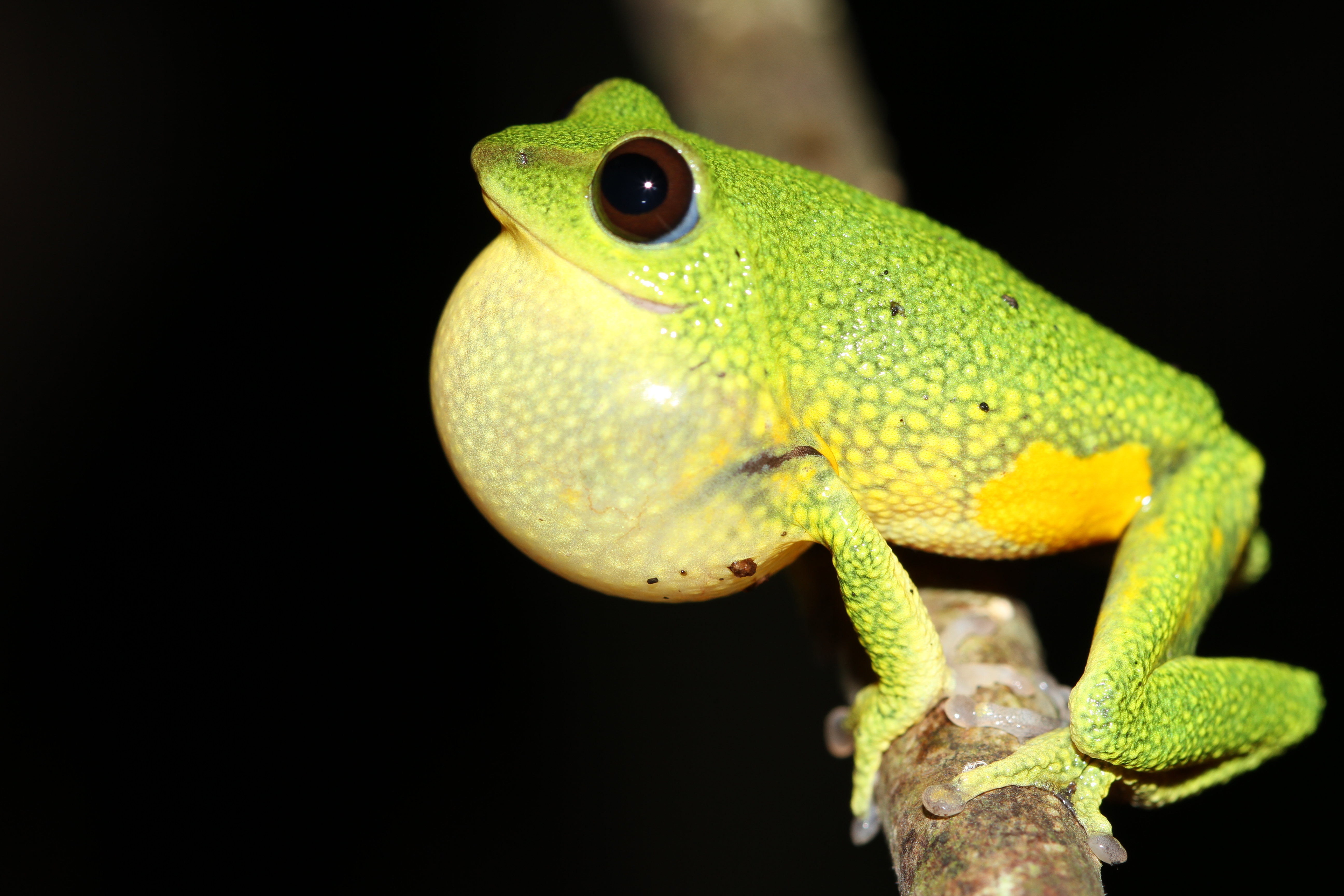 Raorchestes silentvalley, Rhacophorinae, bush frog from Silent Valley National Park, India